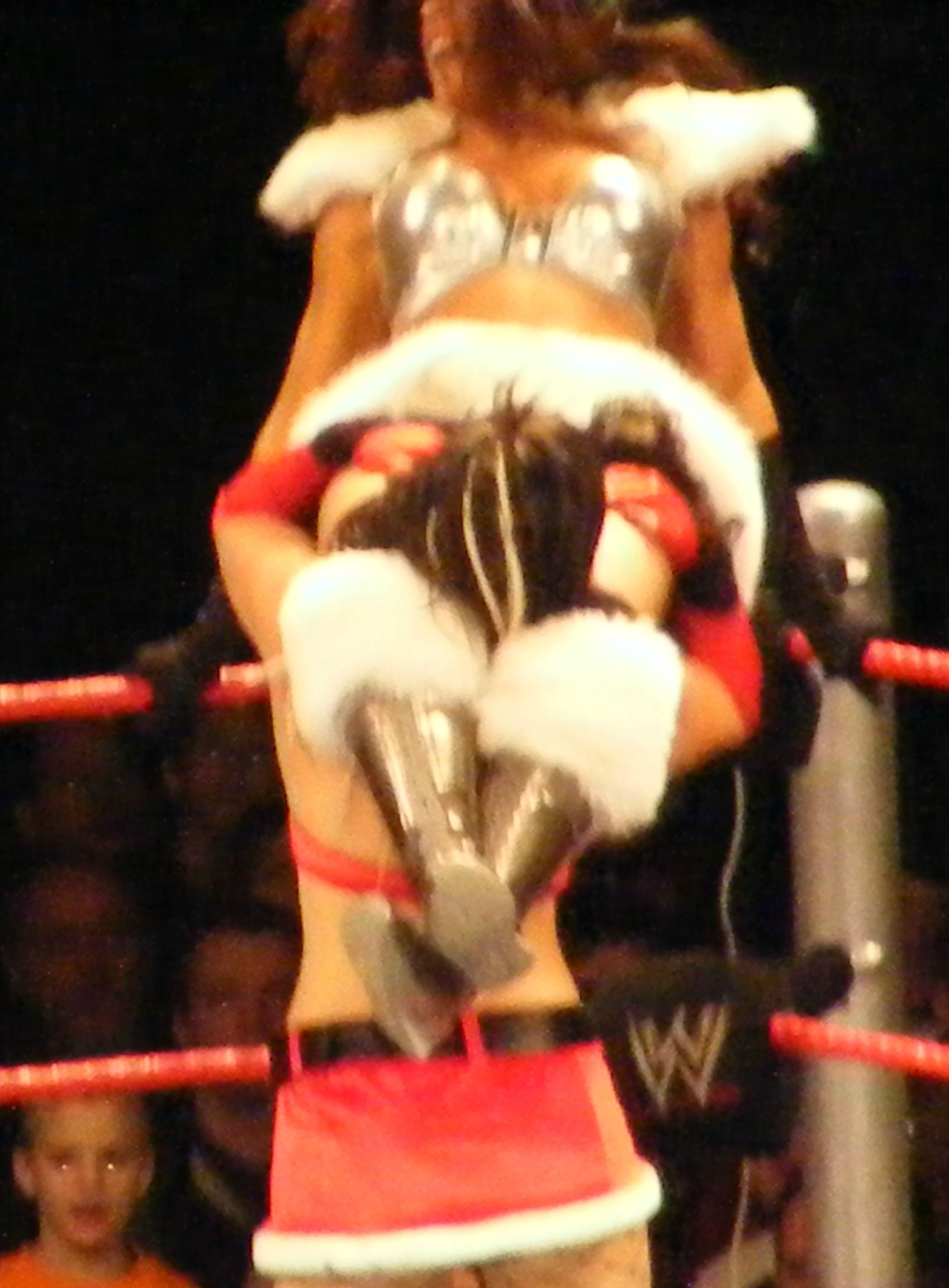 Mickie James performing her aided hurricanran on Katie Lea Burchill (front) during a WWE live event in December 2009.